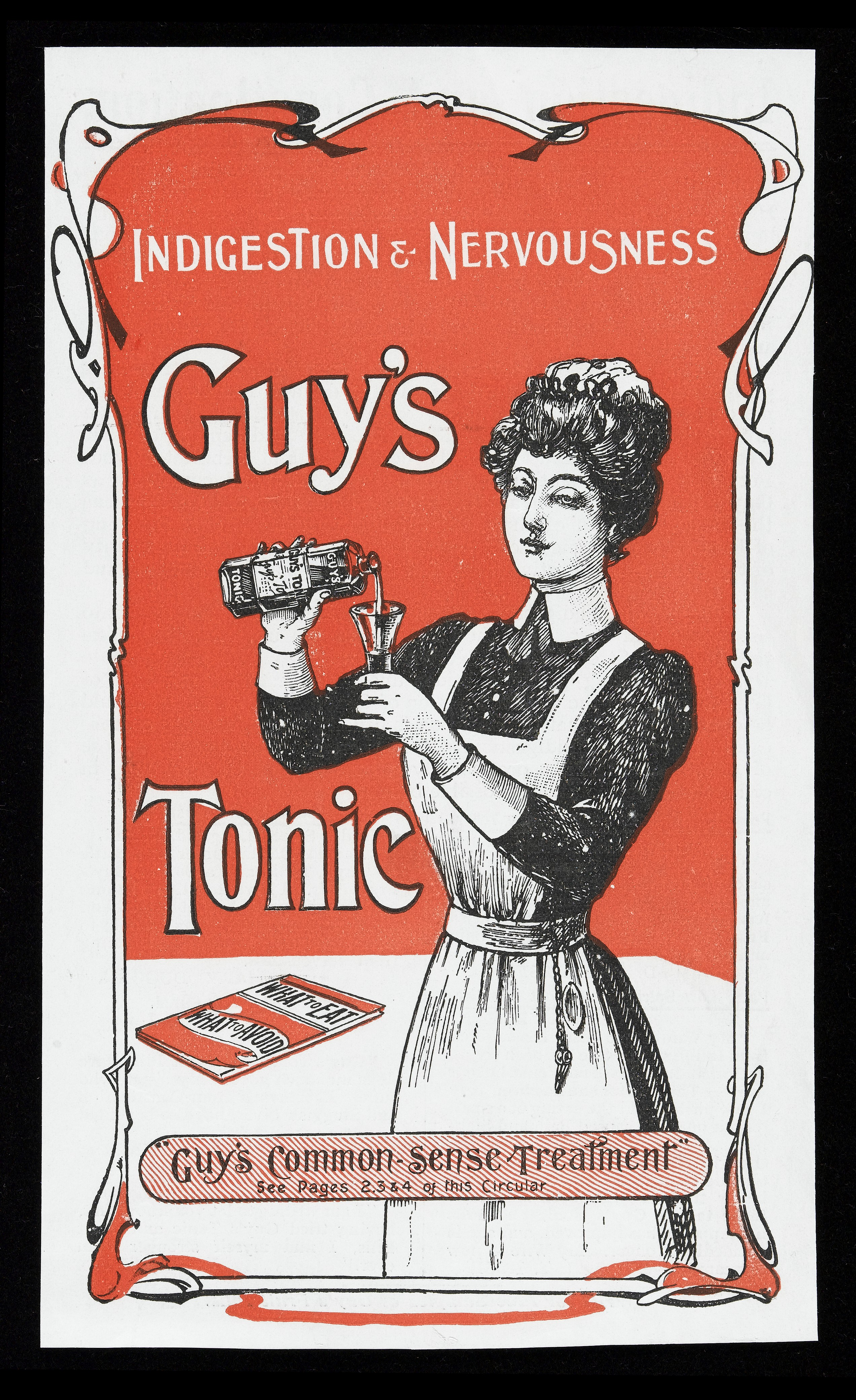 Advert for Guy's Tonic, to aid indigestion and nervousness, showing a nurse pouring the tonic into a measuring cup General Collections Keywords: Product; Gastrointestinal Agents; Constipation; Guy's Fruit Pills.; Advertisements; Guy's Tonic.; T cell; Cathartics; T-Lymphocytes; Advertisement; Dyspepsia